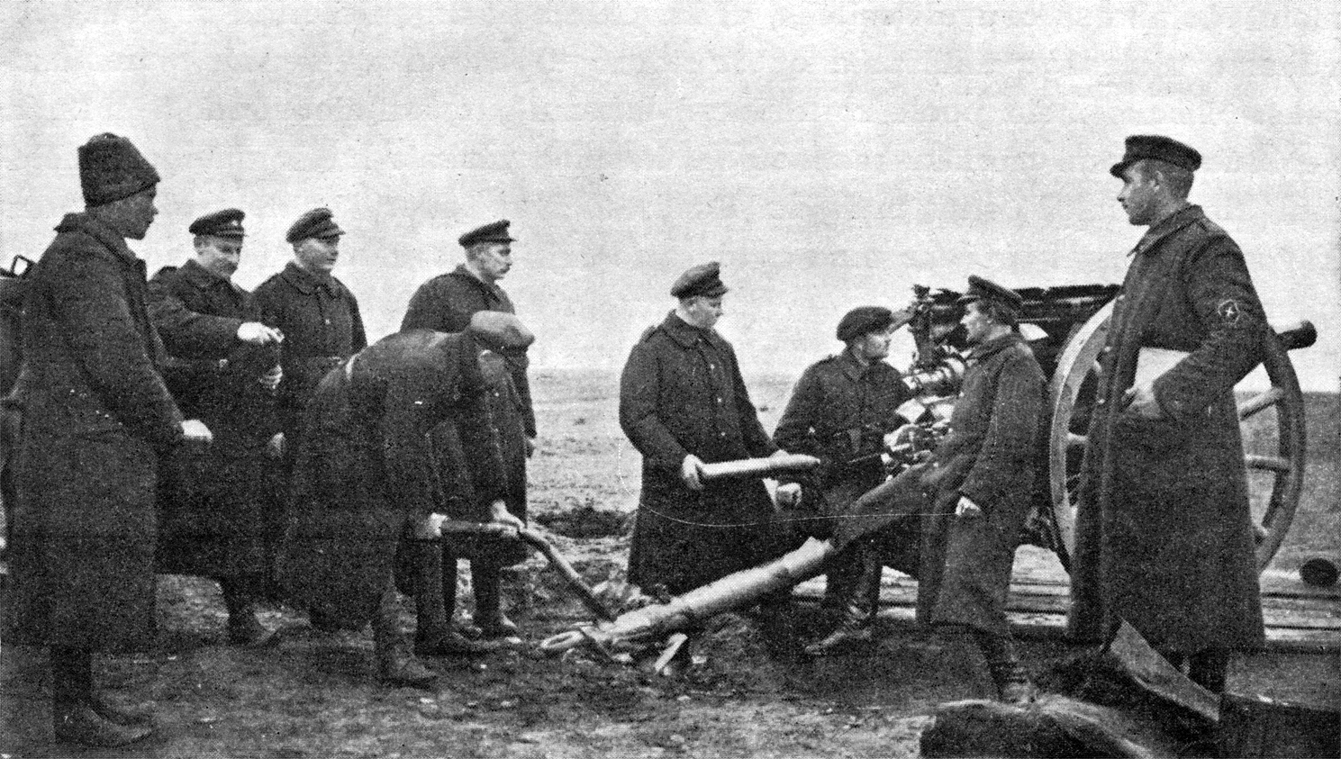 Estonian crew operating a field gun in autumn 1919.